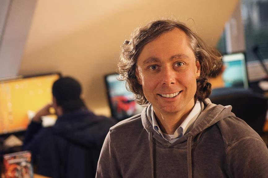 Portrait of Ralph Stock in his game development studio.